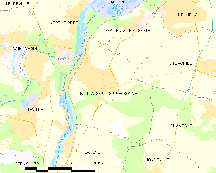 Map of French municipality Ballancourt-sur-Essonne